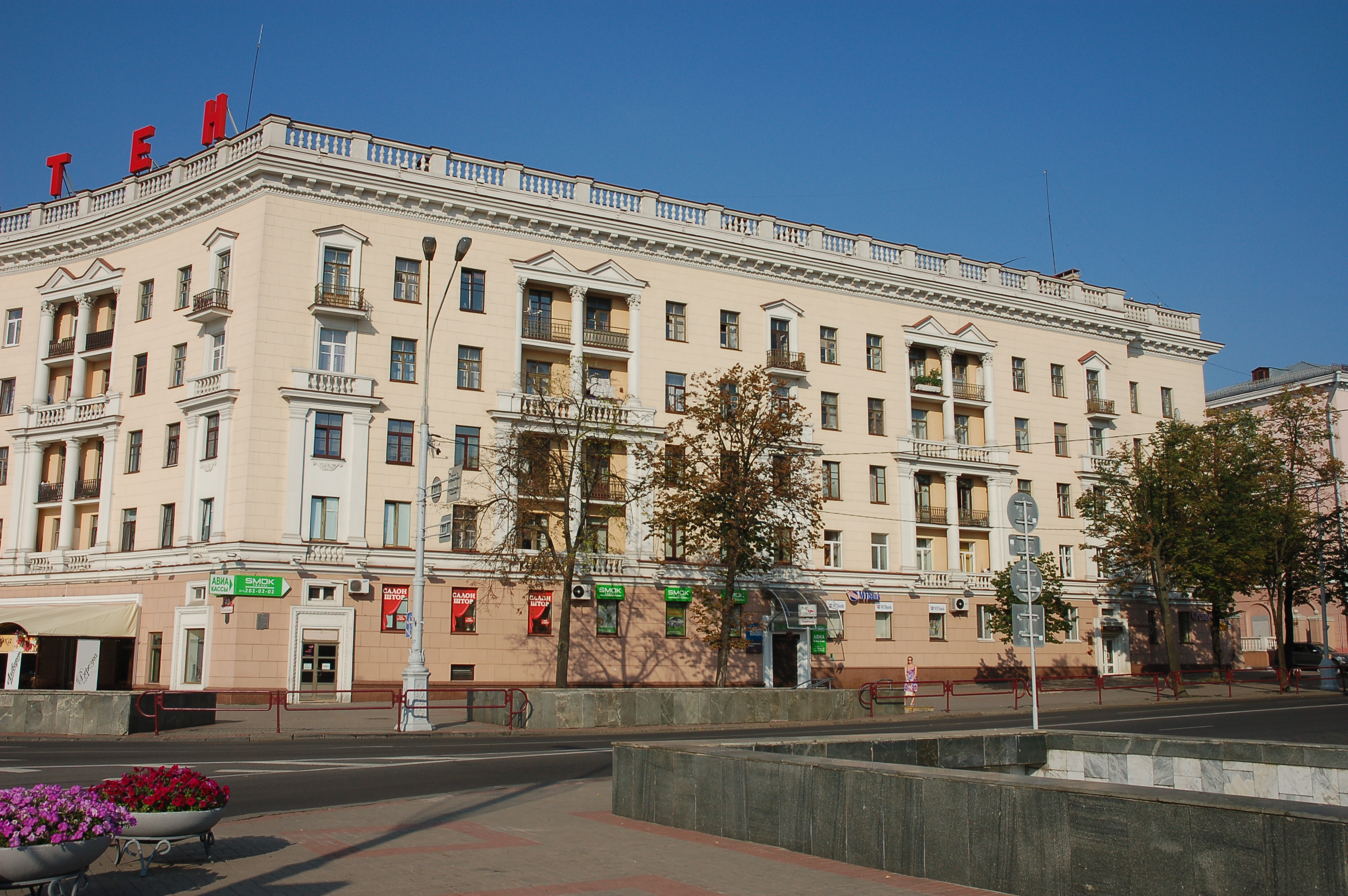 Minsk Zakharava 17 (2)